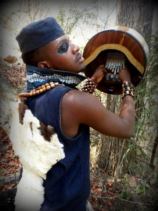 He was playing Mbira a traditional instrumental in zimbabwe